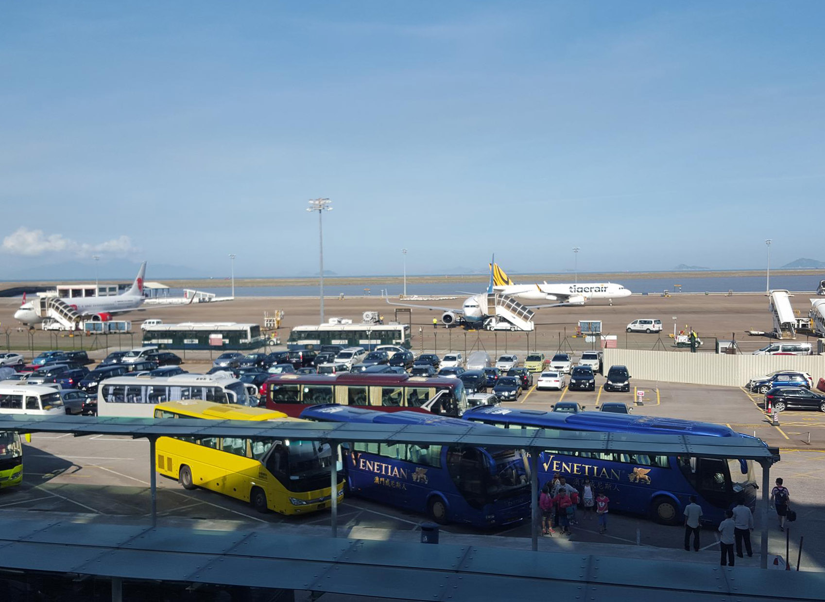 North Parking Zone at Macau International Airport